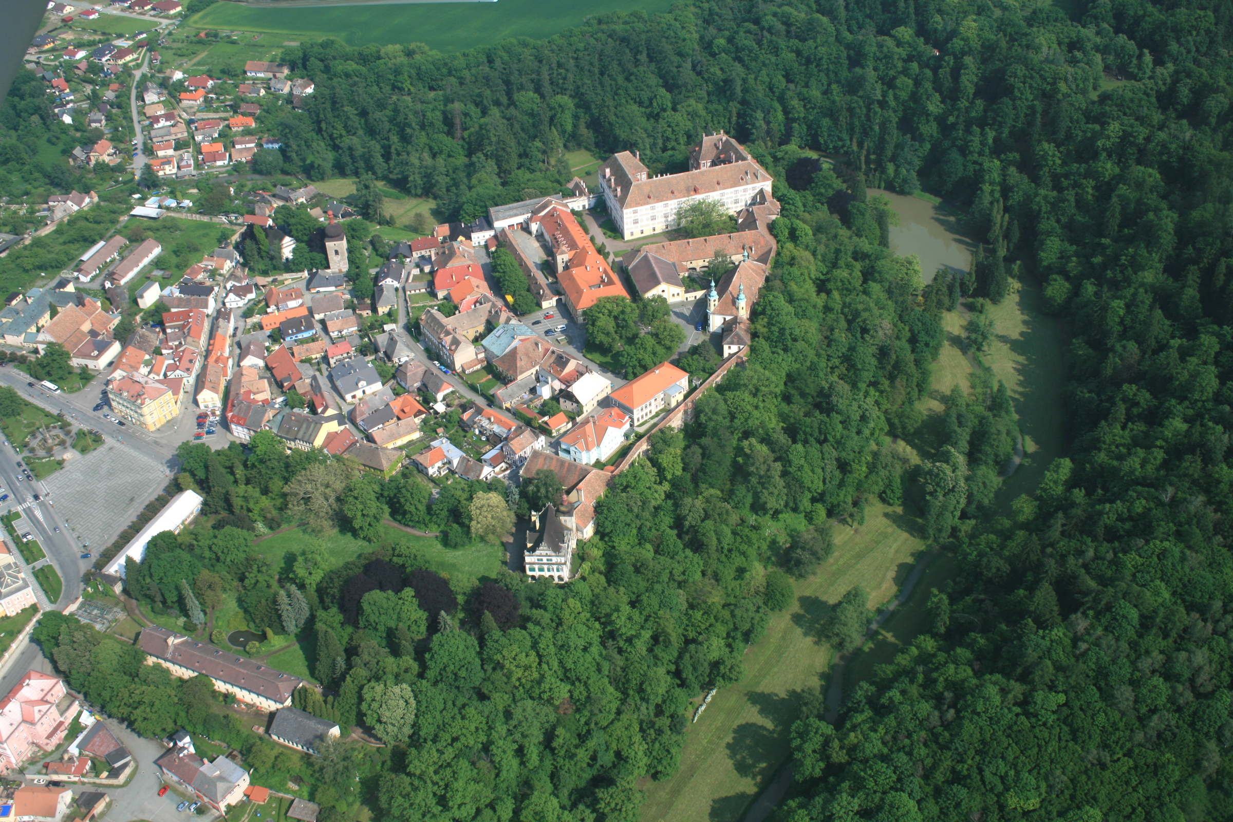 Opočno castle and centrum of Opočno town from air, eastern Bohemia, Czech Republic